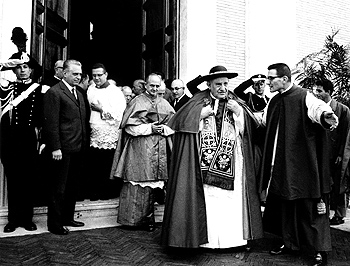 Il 5 novembre 1961 papa Giovanni XXIII solennizzò con la sua presenza la nascita della facoltà di Medicina della Cattolica.